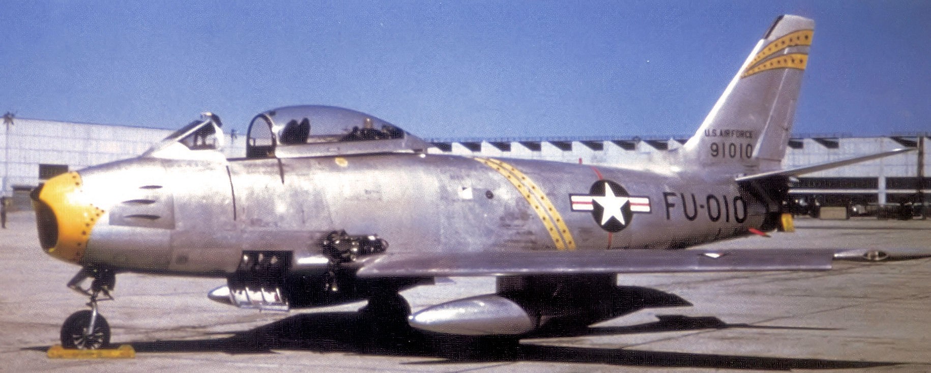 62d Fighter-Interceptor Squadron North American F-86A-5-NA Sabre 49-1010 56th Fighter-Interceptor Group, O'Hare Air Reserve Station, Illinois, 1951 Two yellow stripes on fuselage indicate Operations Officer's aircraft